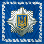 Standard of the Minister of Internal Affairs of Ukraine